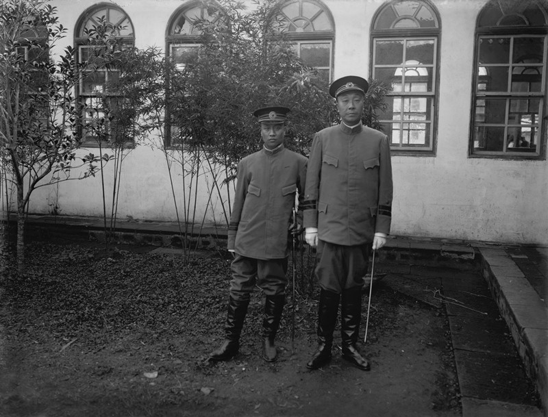 Pu Dianjun (left) and Zhu Qinglan (right)